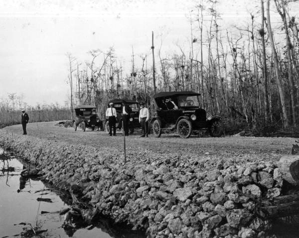 Local call number: RC20618 Title: Cars parked along the Tamiami Trail Date: February 1, 1927 Photographer: Photographic Collection" AND photographer:"Fishbaugh, W. A.(William A.), b. ca. 1873"&searchbox=1&query=Fishbaugh, W. A.(William A.), b. ca. 1873&year=&gallery=0&search-type= Physical descrip: 1 photoprint - b&w - 8 x 10 in. Series Title: Repository: 500 S. Bronough St., Tallahassee, FL 32399-0250 USA. Contact: 850.245.6700. Persistent URL